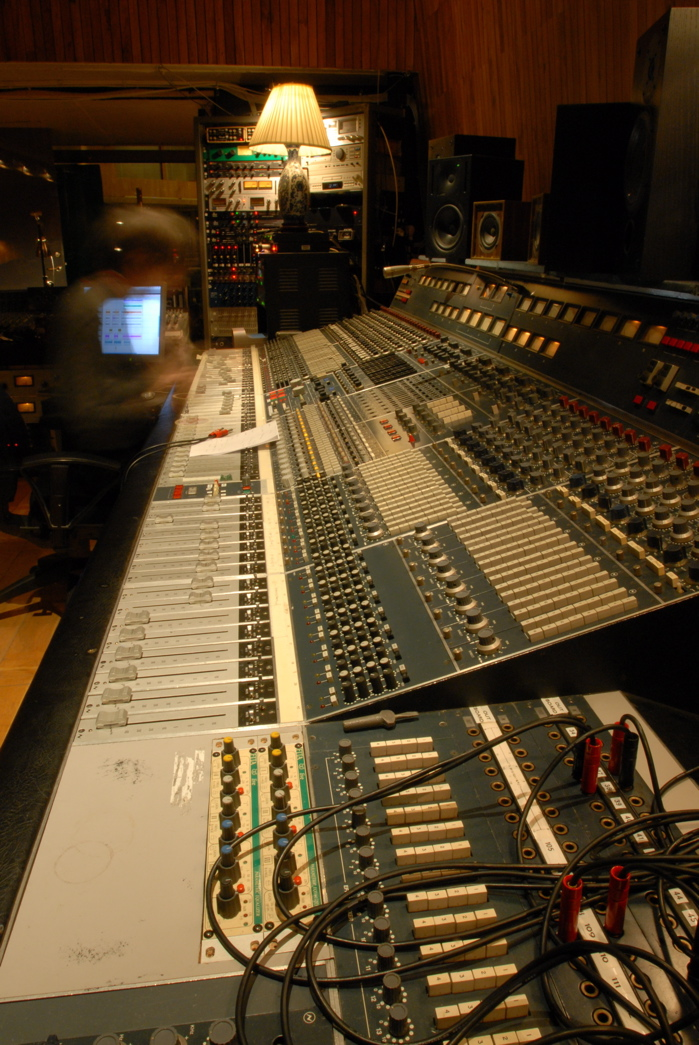 Svenska Grammofon Studion, Gothenburg Sweden, Queen Neve